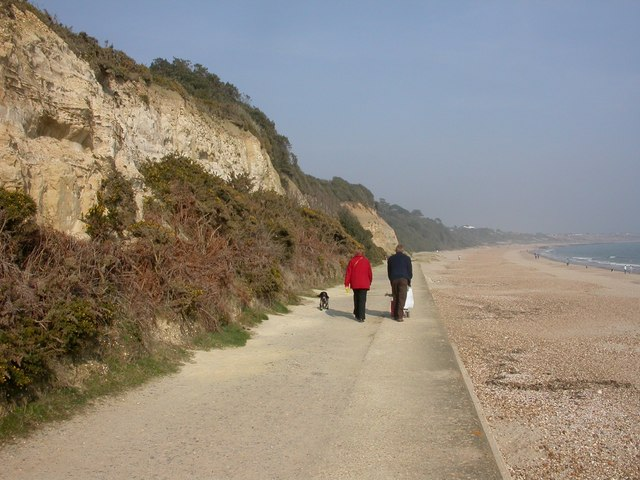 Friar's Cliff, cliffs Most of the cliffs between Friar's Cliff & Highcliffe have been invaded by scrub, or planted with trees to combat erosion. 250m remain, of Eocene Boscombe Sands & Barton Clay. Miner bees are much in evidence, flying in & out of holes in the sands in the cliffs. For a full description of local geology